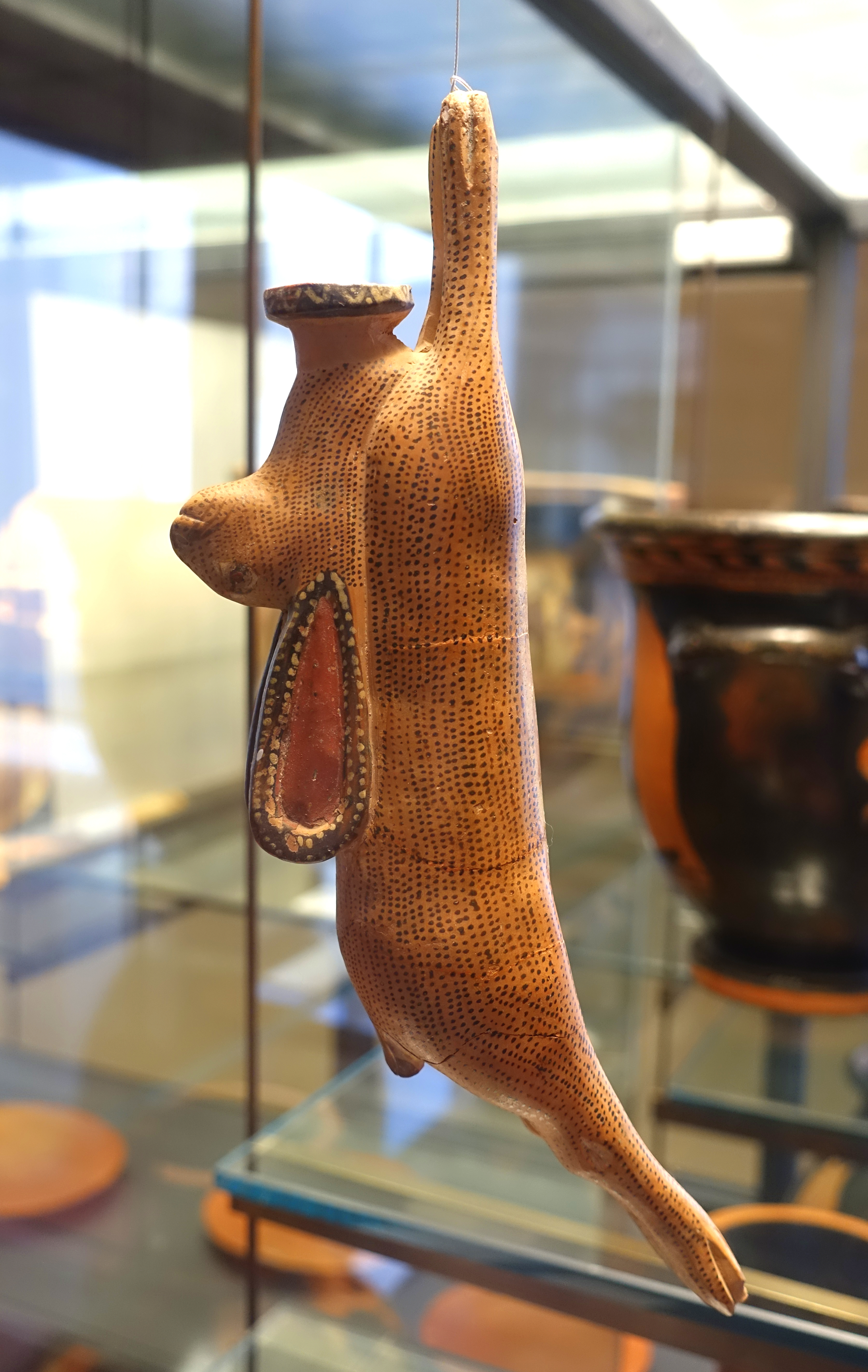 Exhibit in the Museo Gregoriano Etrusco - Vatican Museums.